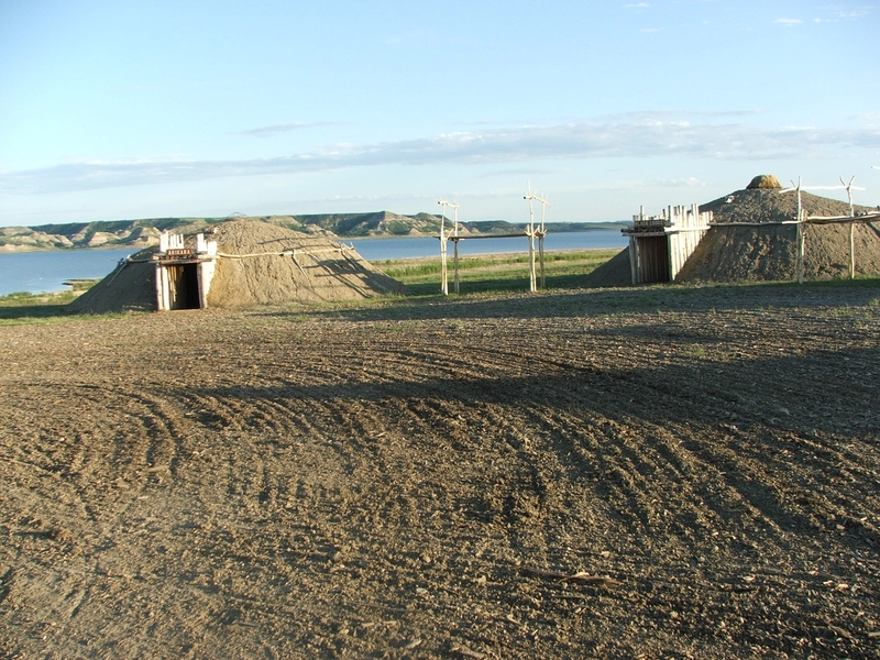 View of Earthlodges